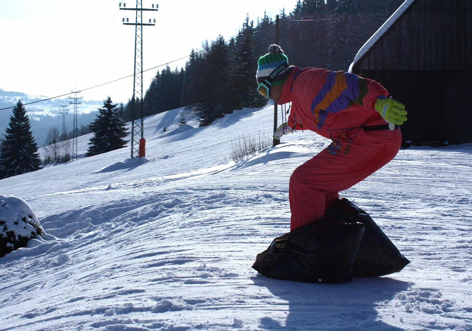 Snowbagger